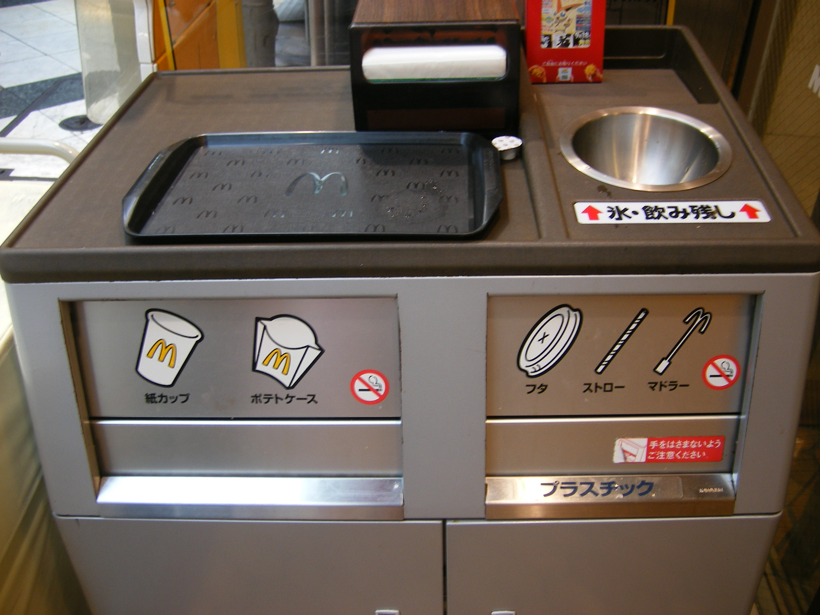 In this McDonald's restaurant in Japan, you are asked to pour your unfinished drink into the metal basin and separate out plastic trash.